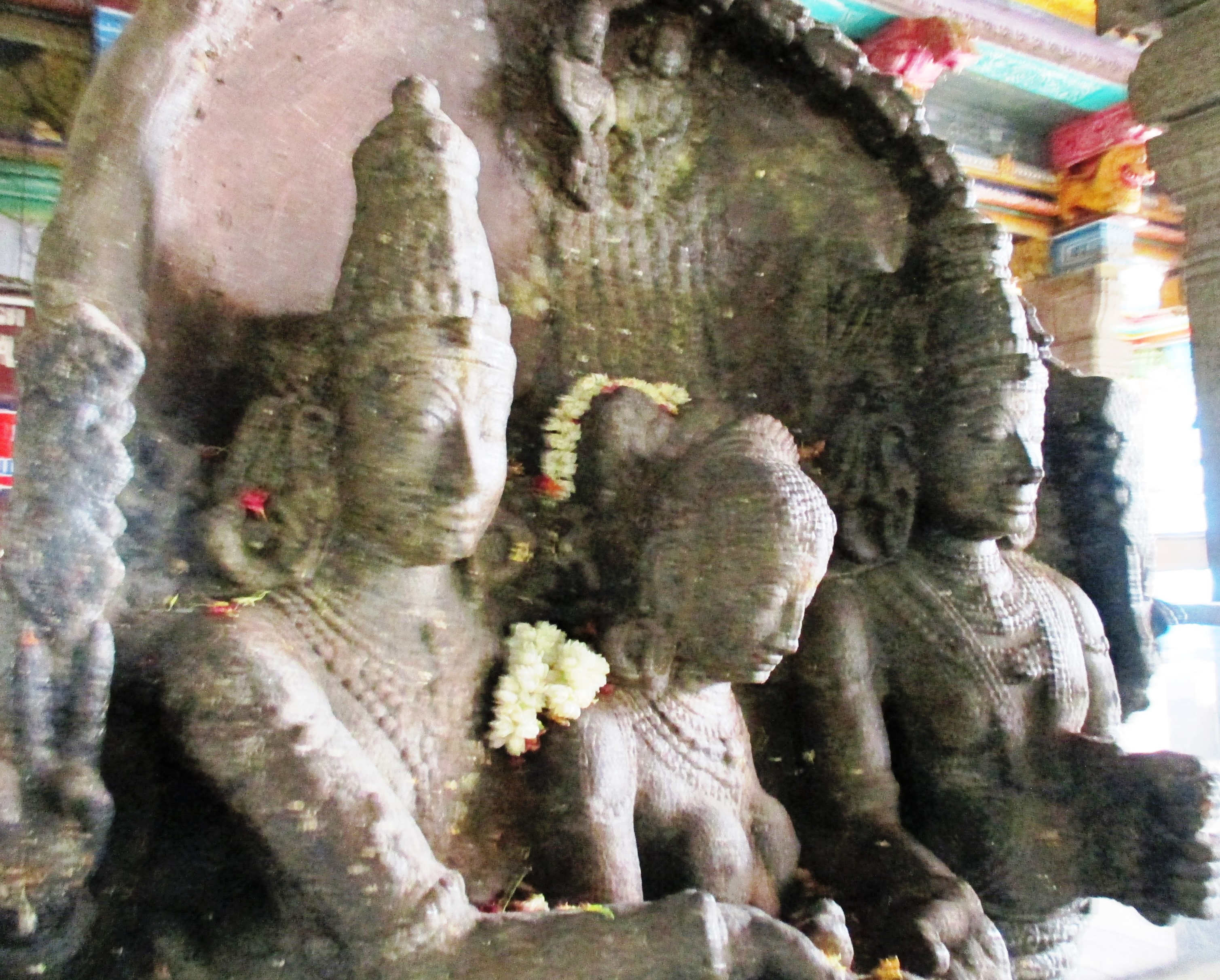 Tirupparamkundram, Murugan temple sanctum, the wedding of Muruga, Daivayani, Narada